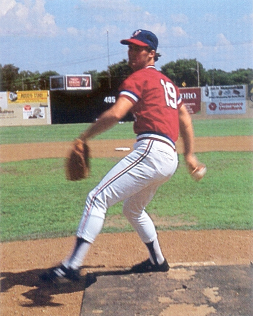 Pitcher Scott Nielsen of the 1984 Nashville Sounds Minor League Baseball team of the Southern League